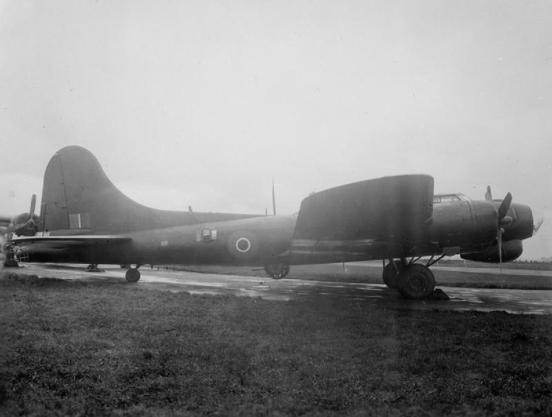 A Royal Air Force Fortress B Mark III (serial HB796) at Prestwick, Ayrshire (UK), after being fitted with radio counter-measures equipment by Scottish Aviation Ltd. It served with No. 214 Squadron RAF of No. 100 Bomber Group, based at Sculthorpe, Norfolk, from November 1944. Equipment fitted included American AN/APS15 radar in the large radome under the nose, "Airborne Cigar" (ABC) radio-jamming equipment (shown by the large aerial on top of the fuselage), and an "Airborne Grocer" aircraft radar jamming installation, the aerials of which can be seen on either side of the tail turret. HB796 failed to return from a bomber support mission on 9 February 1945.